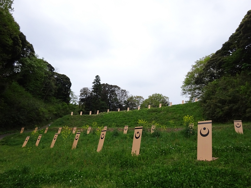 Ruin of 15th century Motosakura Castle on the boundary of Shisui and Sakura near Narita. With mock defense line of archers’ shields on display.